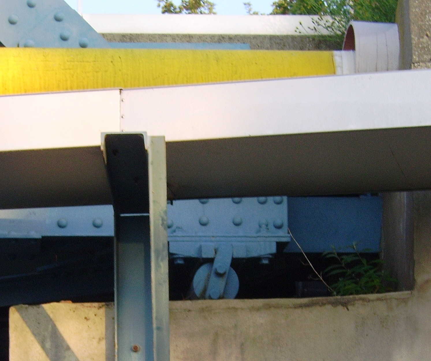 Roller support on a bridge (this technique is no longer used).